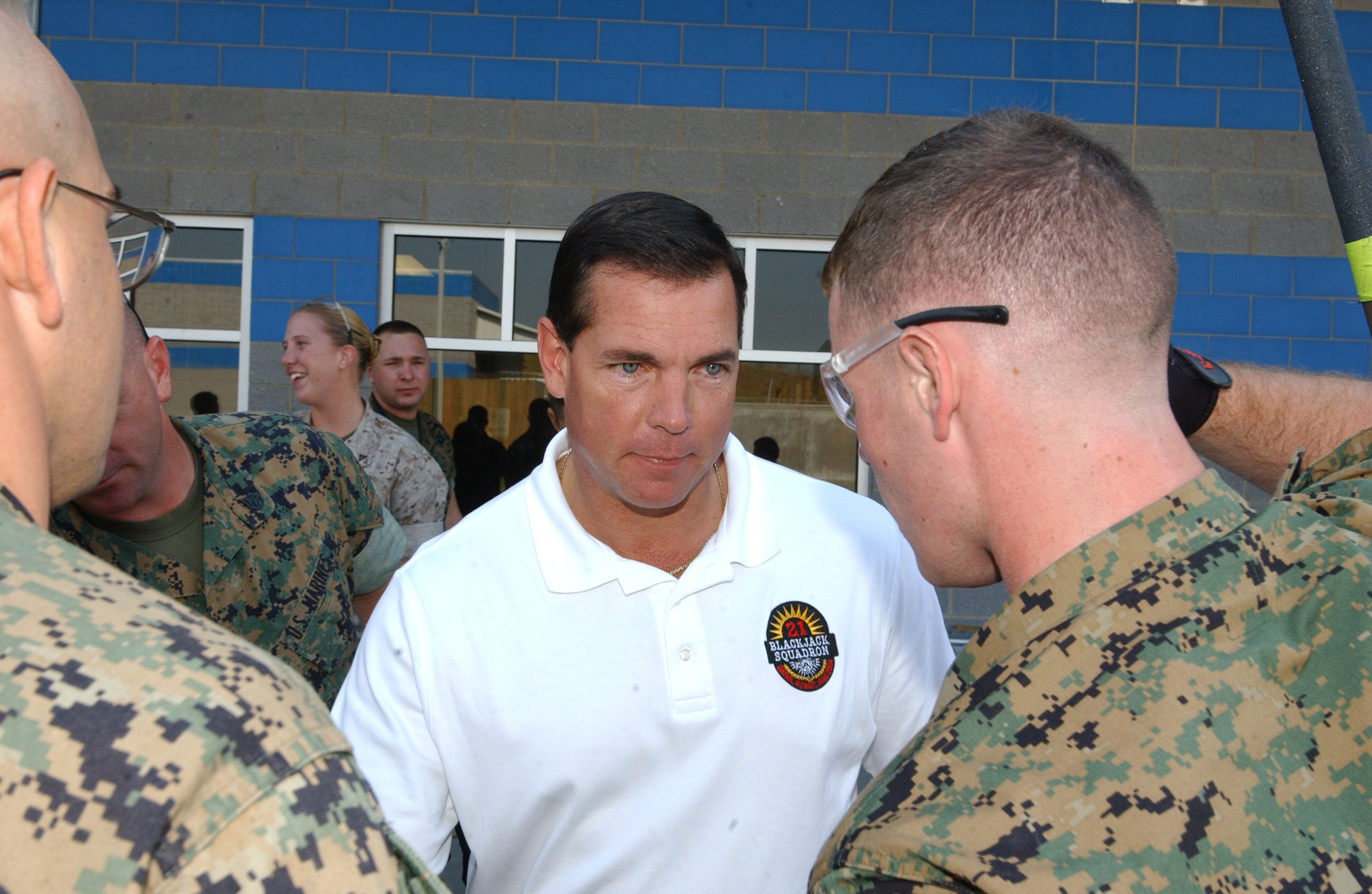 PhotoID: 20041112152347 Submitted by: 2nd Force Service Support Group Operation/Exercise/Event: Event Caption: Jeff Hammond explains the importance of safety while on pit road to Marines from 2d Transportation Support Battalion, 2d Force Service Support Group, based from Camp Lejeune, N.C. He told his guests to Pit Instruction and Training to be aware of their surroundings at all times. Photo by: Cpl. G. Lane Miley Read Story Associated with this photo Date the Photo was taken:10/25/2004 This Image has been cleared for release.